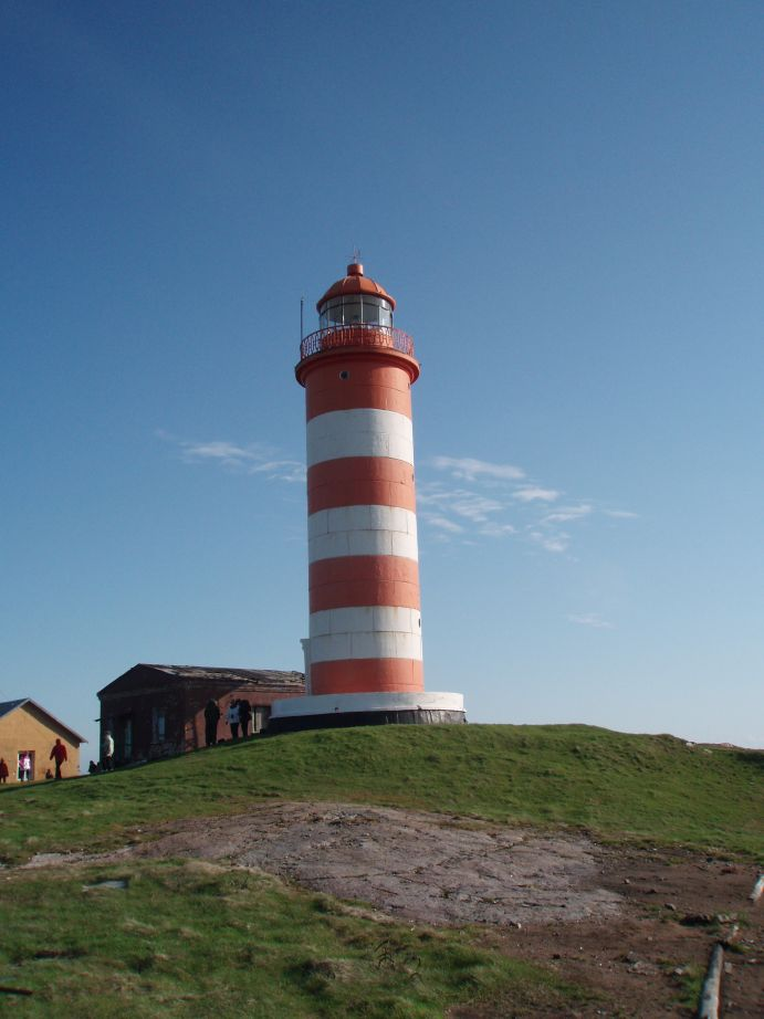 Lighthouse on northern height of Hogland in Kingiseppsky District, Leningrad Oblast, Russia.